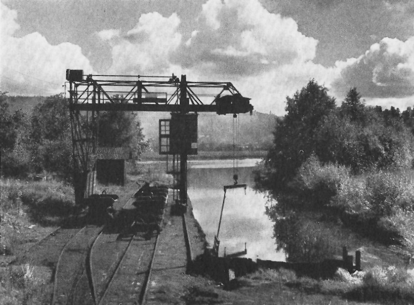 Unloading port of Hofors steelmill.